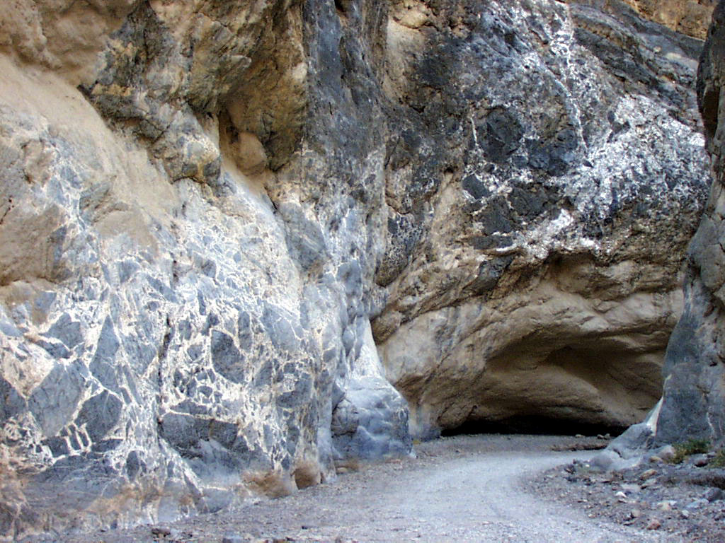 Fault breccia of grey limestone blocks in white calcite at Titus Canyon, Death Valley National Park, California, USA.